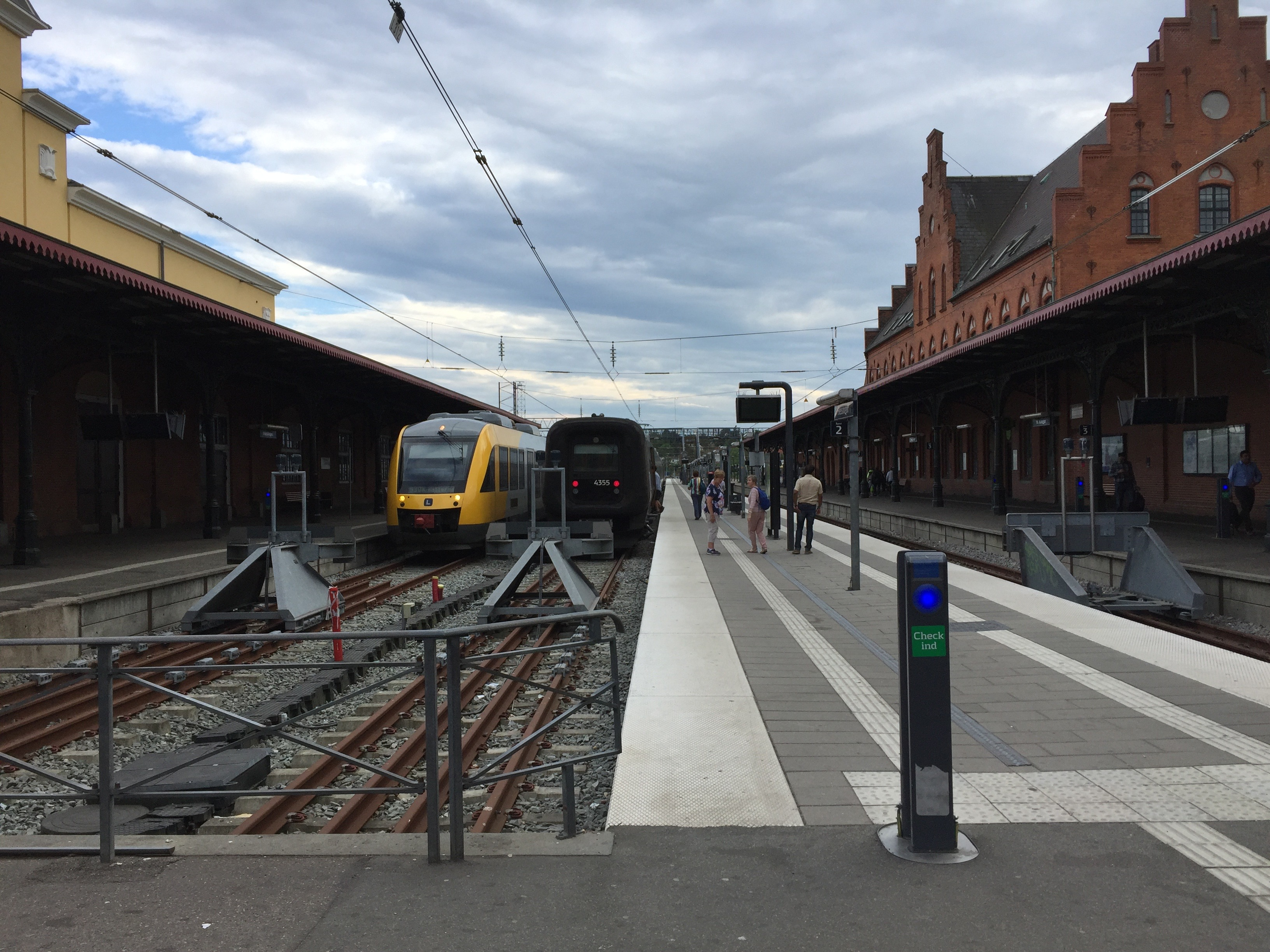 Track area of Helsingør railway terminal in Helsingør, Denmark in 2018